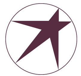 Omi Nagano chapter